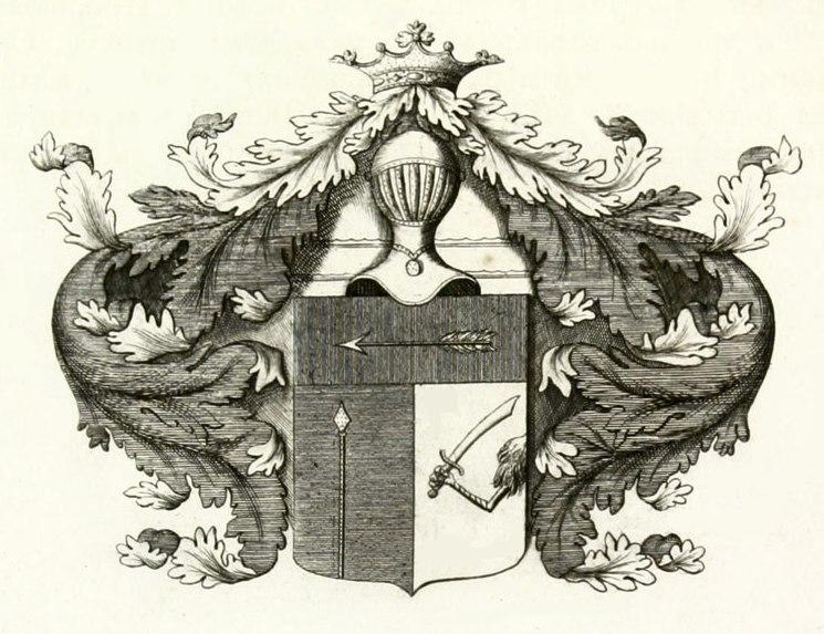 This (more than) 200 years old image has been reformatted, so it became a personal creation, with no rights attached